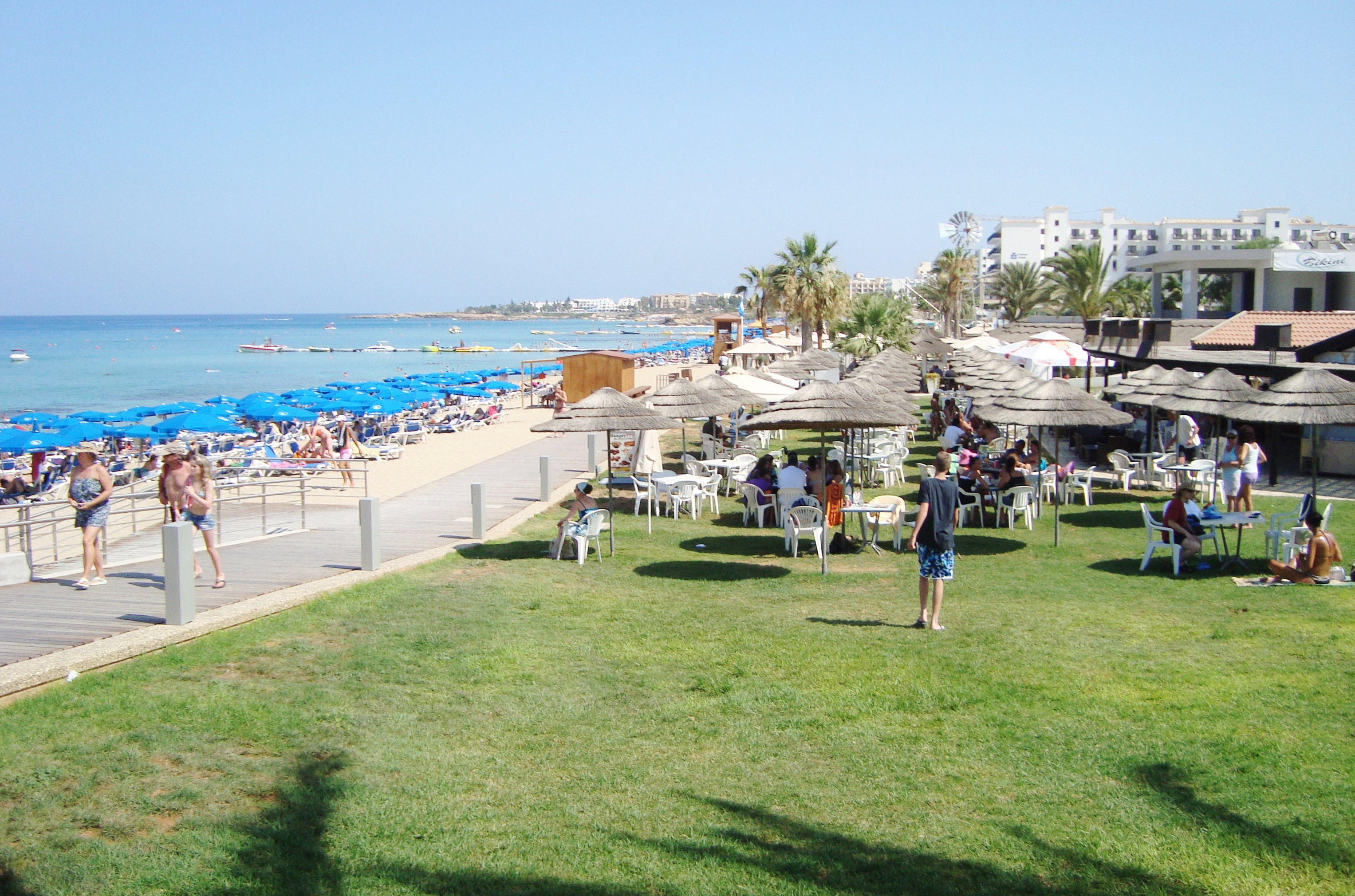 Protaras beach at Paralimni holiday destination in Republic of Cyprus